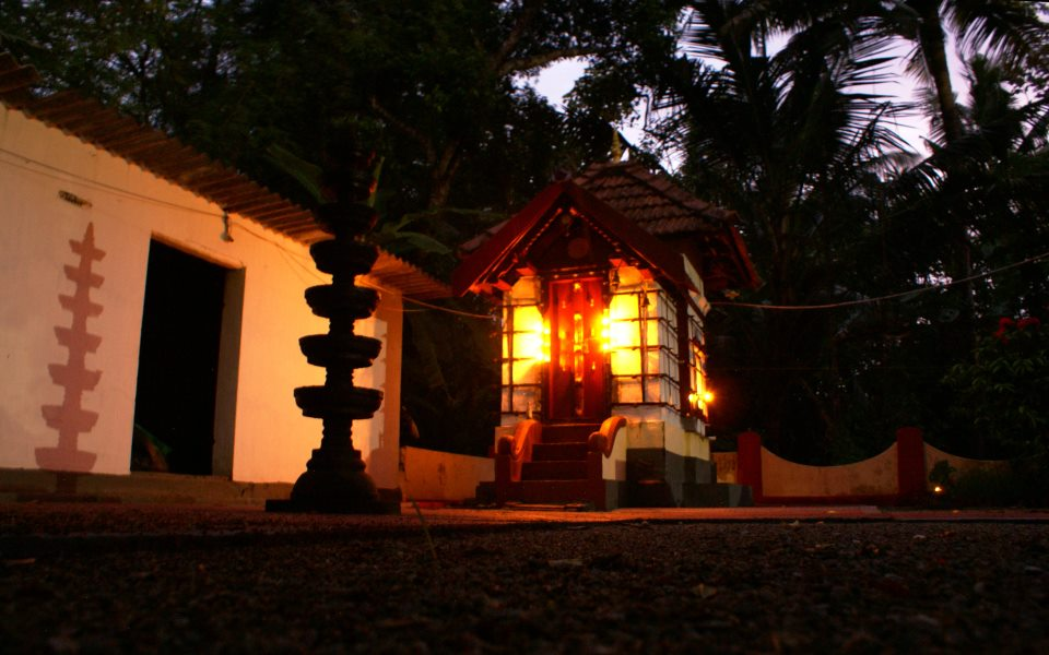 Vazhappally Vaipooru Mahadeva Temple Night view